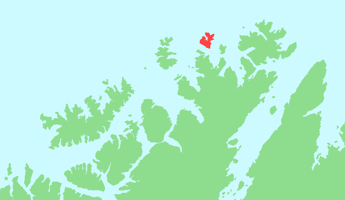 Locator map of Hjelmsøya, Finnmark, Norway